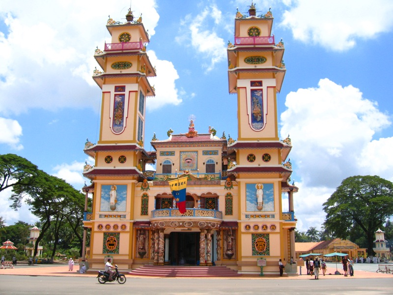 Cao Dai Temple from the outside.